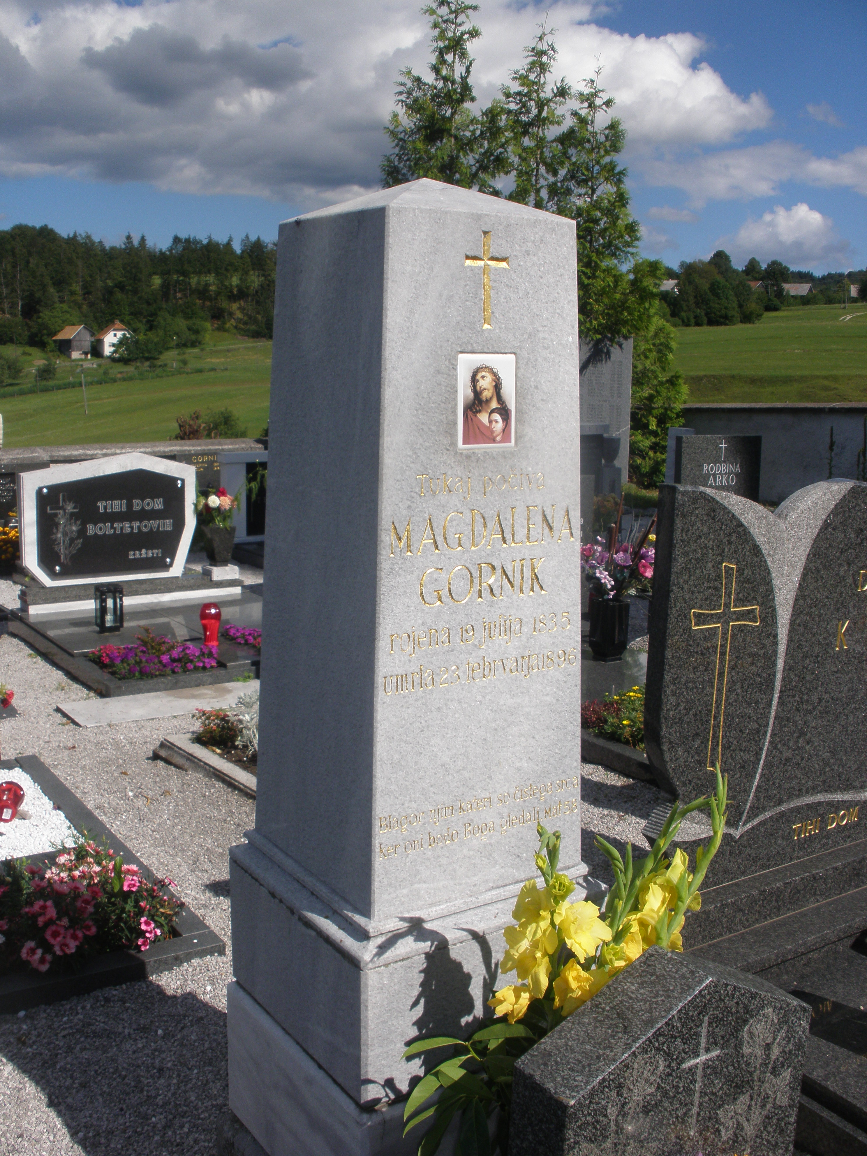 tomb of Magdalena Gornik (Lenčka) on cemetery of Gora near Sodražica